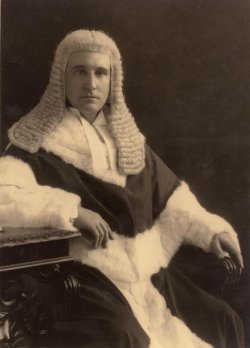 Picture of Chief Justice Sir Kenneth Street, from Dictionary of Australian Biography, Percival Serle. In public domain as picture taken before 1940 (1931). Source =